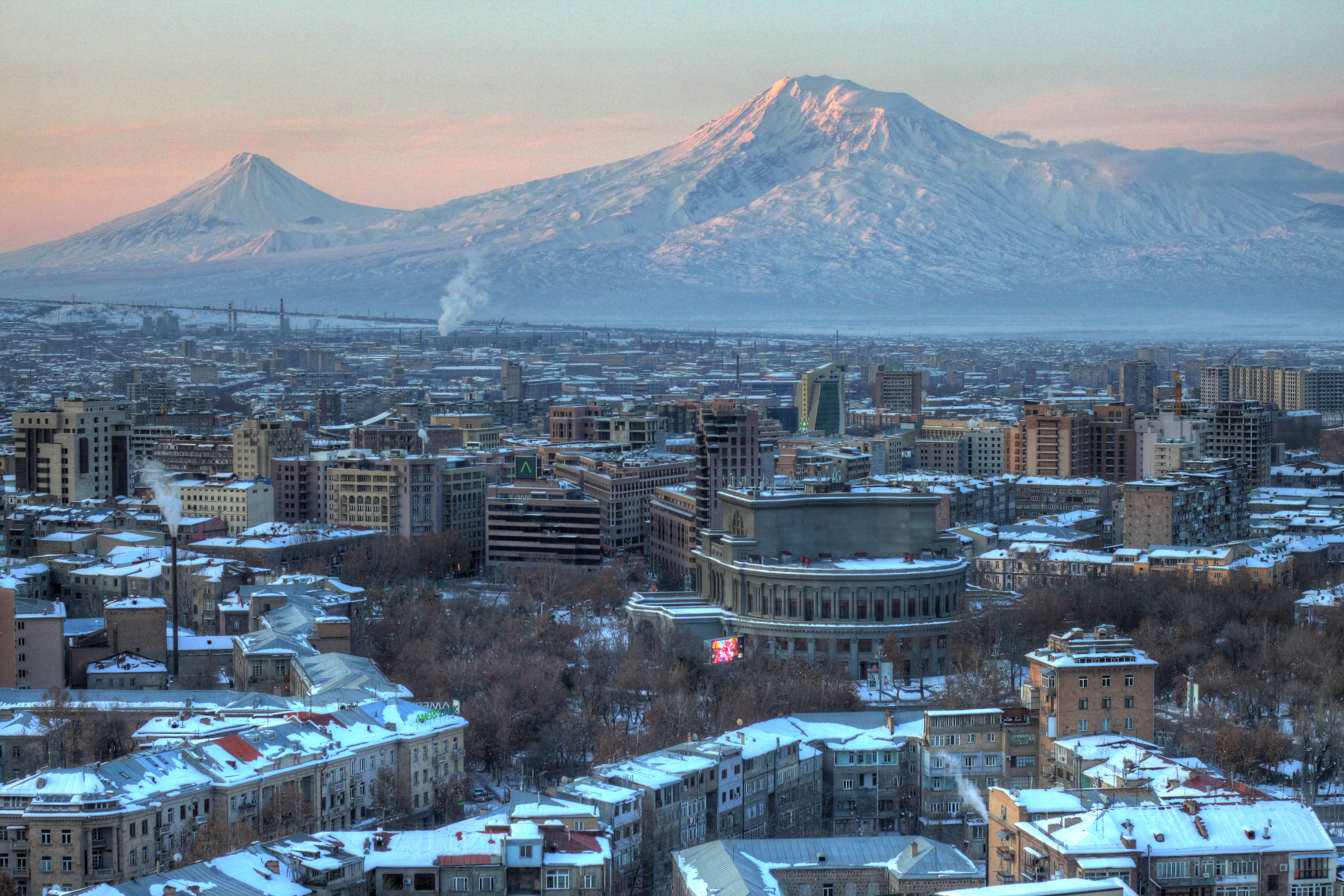 A winter view of Yerevan, the capital city of the Republic of Armenia, with the backdrop of Mount Ararat (locally known as Masis). Taken at sunrise, 8:11 AM.